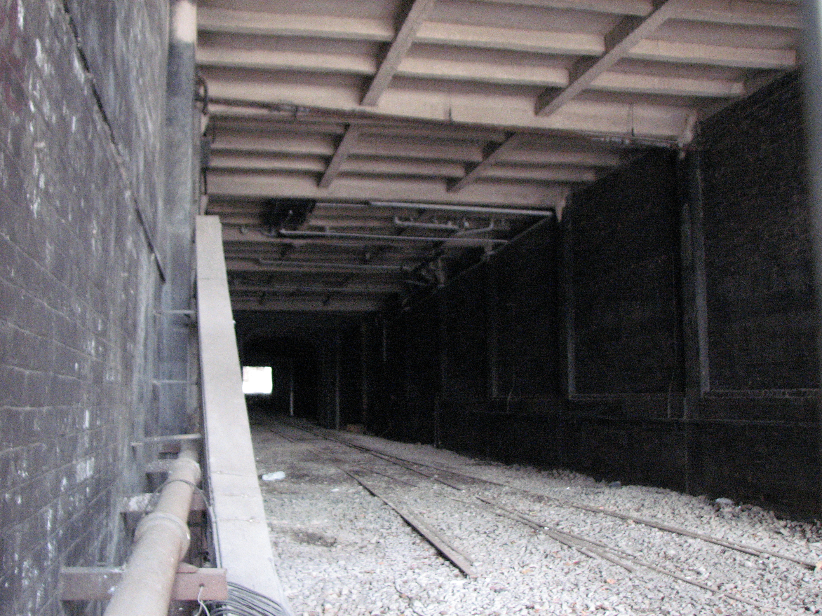 Railway Square road overbridge showing the north-western end of tunnel under the road. The overbridge is listed on the New south Wales State Heritage Register